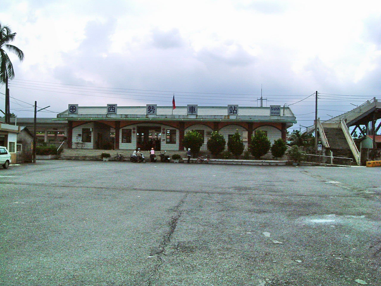 臺灣鐵路管理局西勢車站 TRA Sishih Station